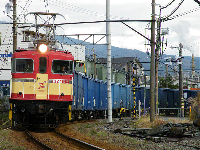 Gakunan railway's freight train near Gakunan Harada Sta., Shizuoka, Japan.